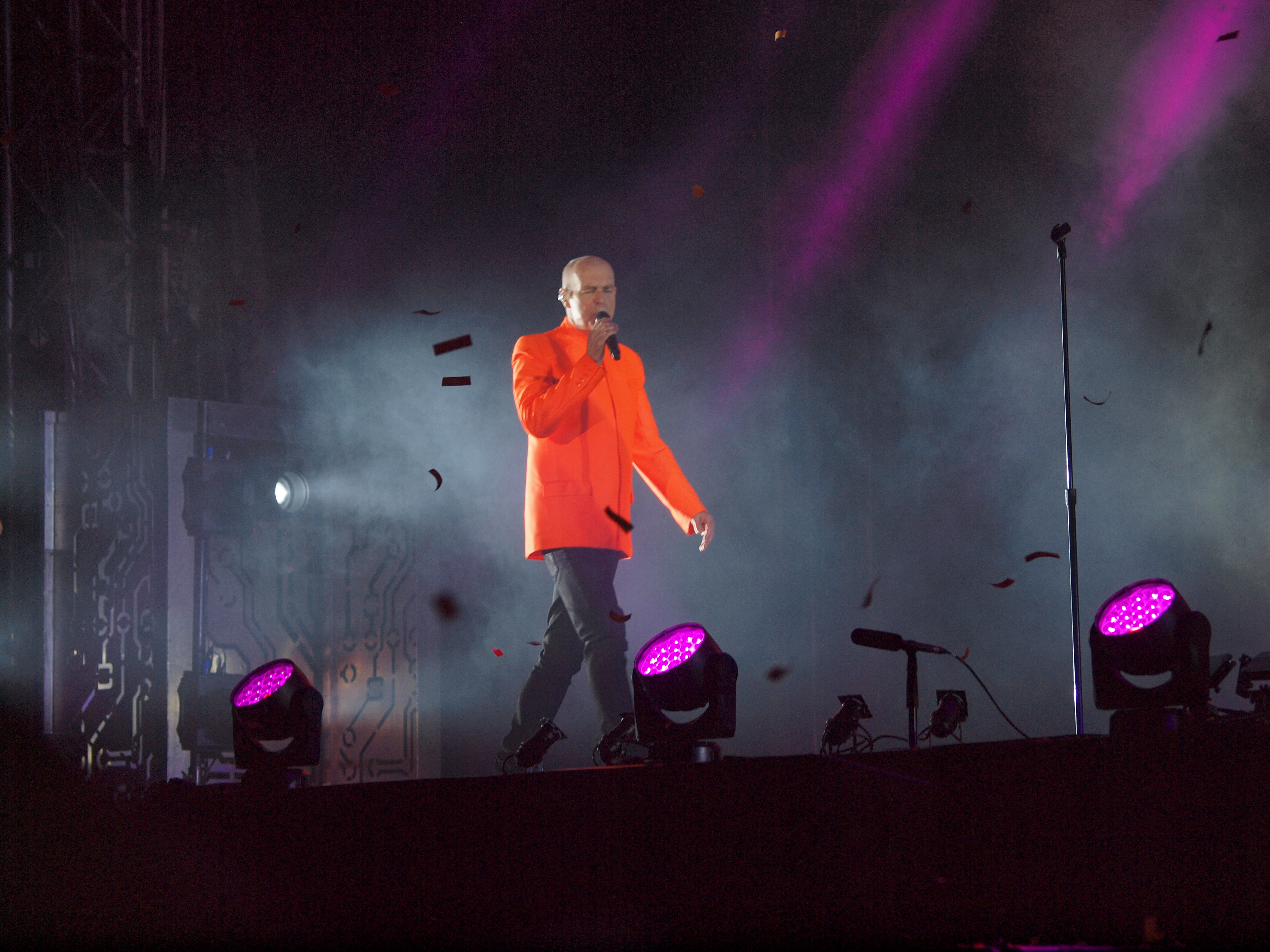 Neil Tennant from the Pet Shop Boys live at Pori Jazz 2014.